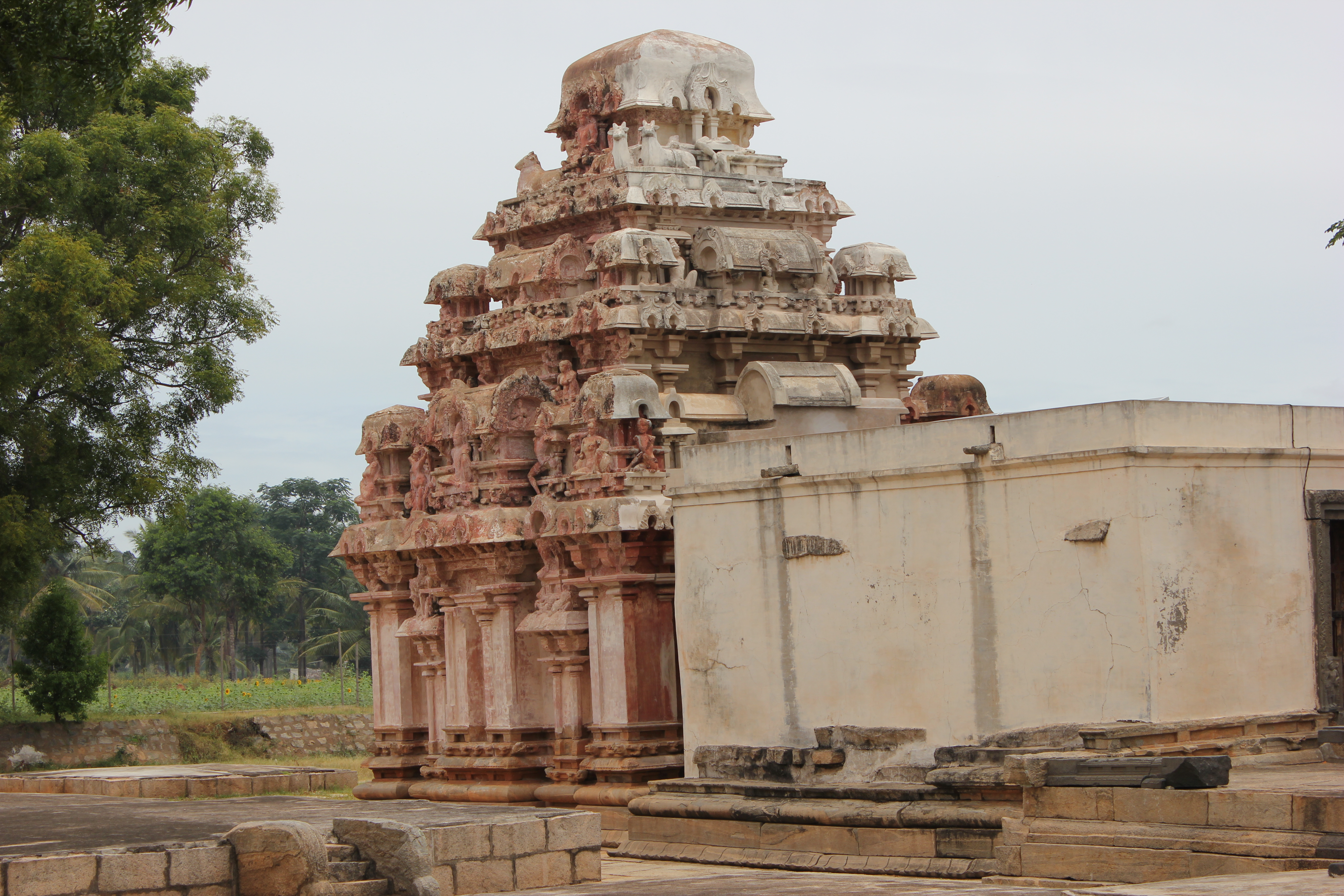 This photograph was taken by me at the Rameshvara temple (also spelt Rameshwara or Ramesvara) at Narasamangala, Chamarajanagar district, Karnataka state, India. The temple is assigned to the 9th century Western Ganga dynasty of Talkad.